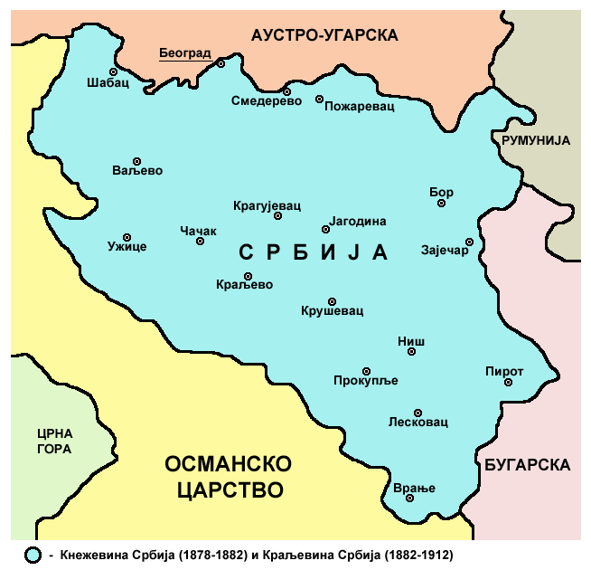 Principality of Serbia (1878-1882) and Kingdom of Serbia (1882-1912) - Serbian language Cyrillic script version.